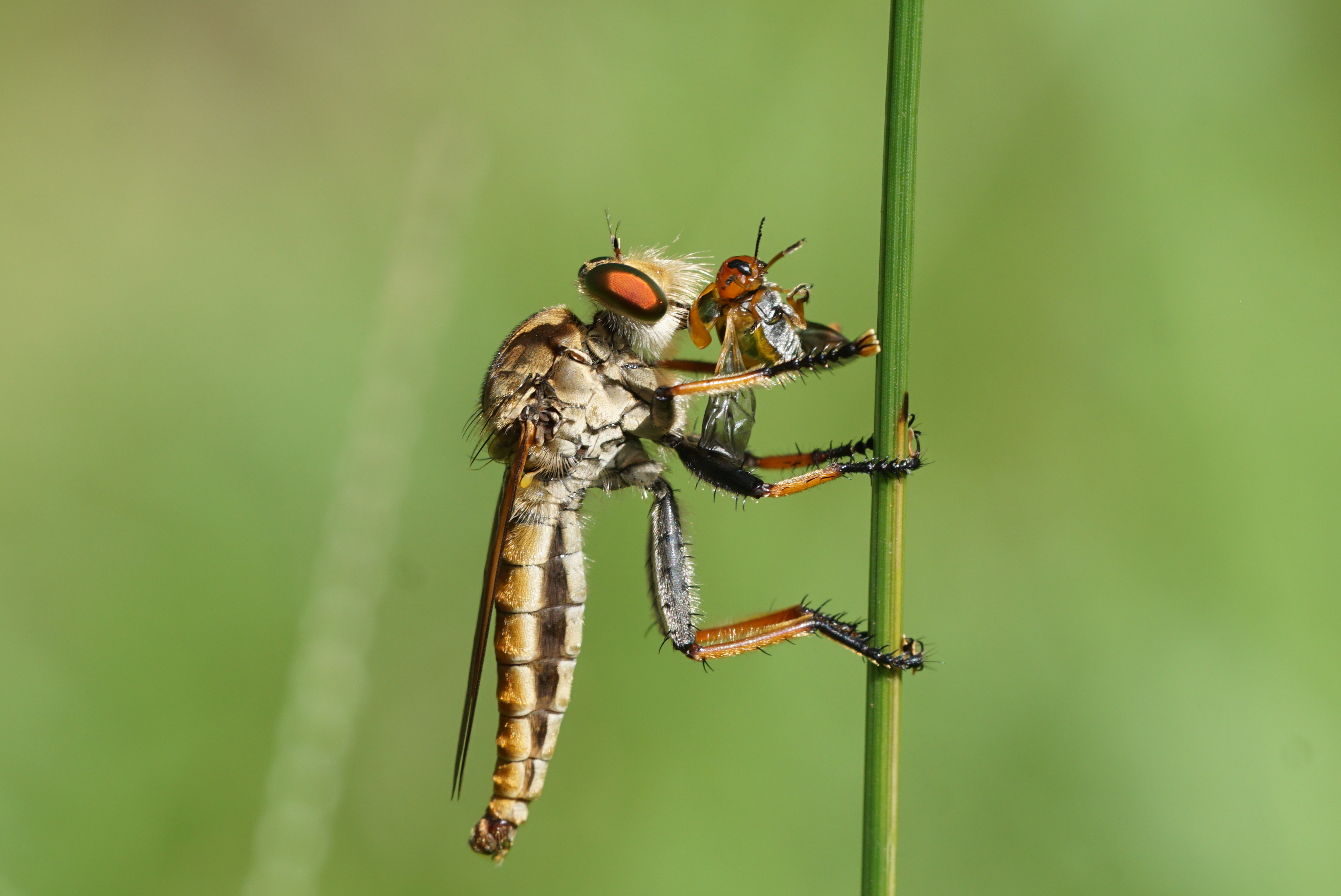 Cophinopoda sp